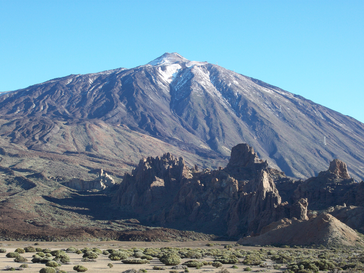 Teide from Llano de Ucanca